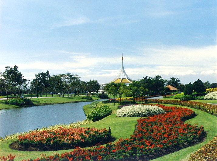 Rama 9 Park, Bangkok, Thailand Photo dated circa 1998 obtained by User: Heuristics